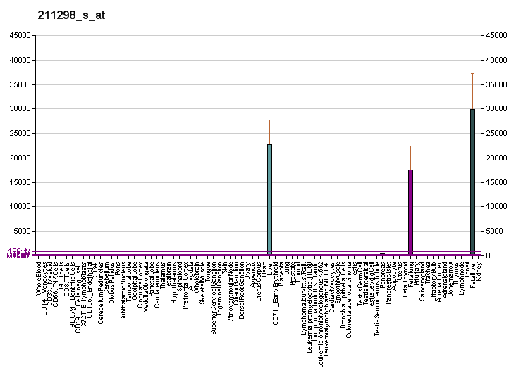 Gene expression pattern of the ALB gene.